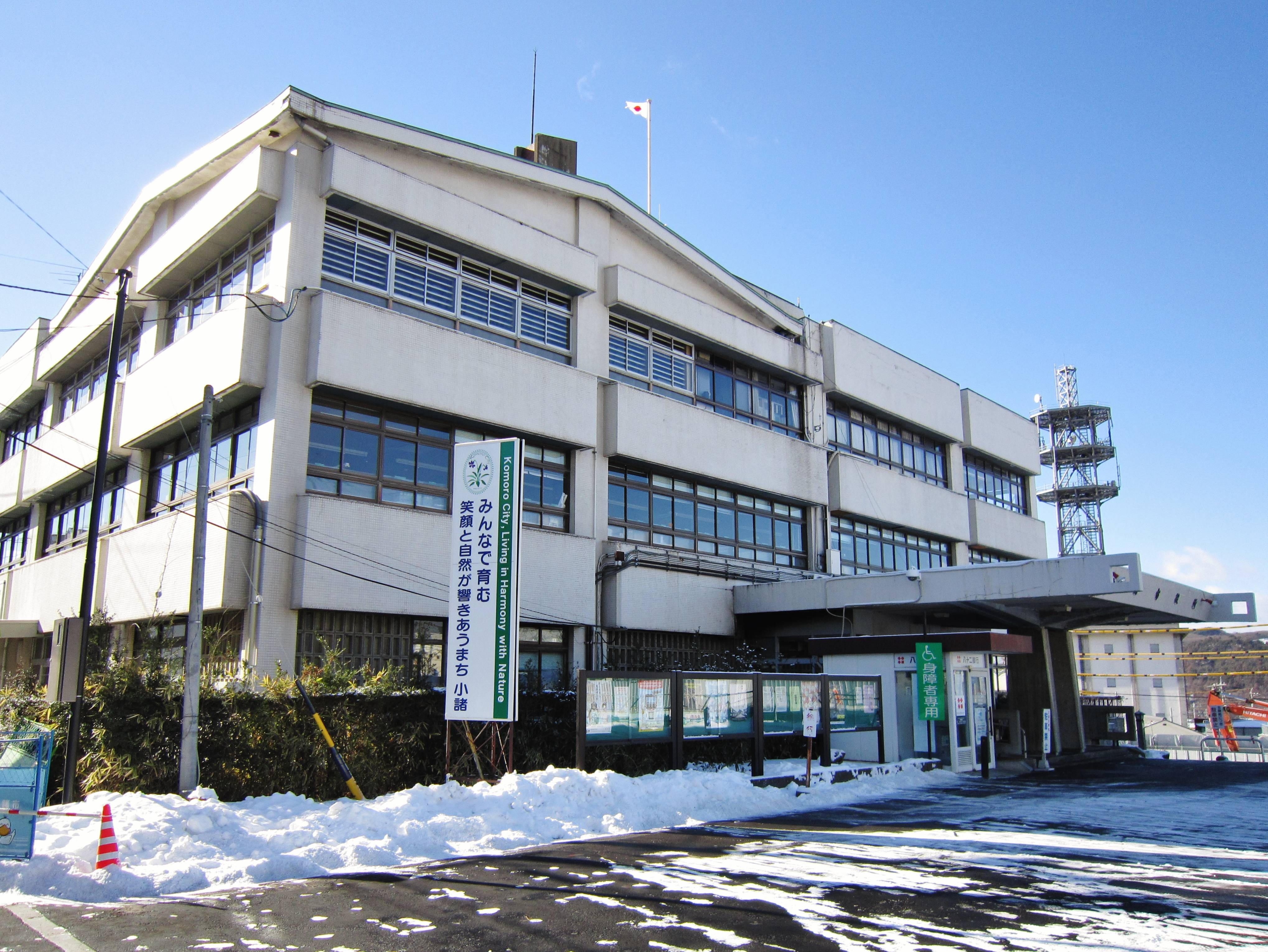 Komoro city office.